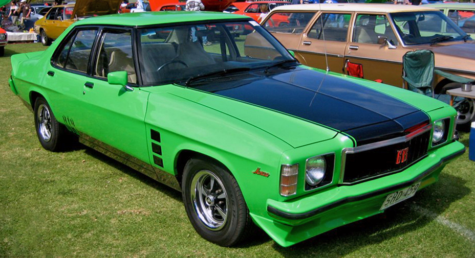 1976–1977 Holden HX Monaro GTS sedan, photographed in South Australia, Australia.